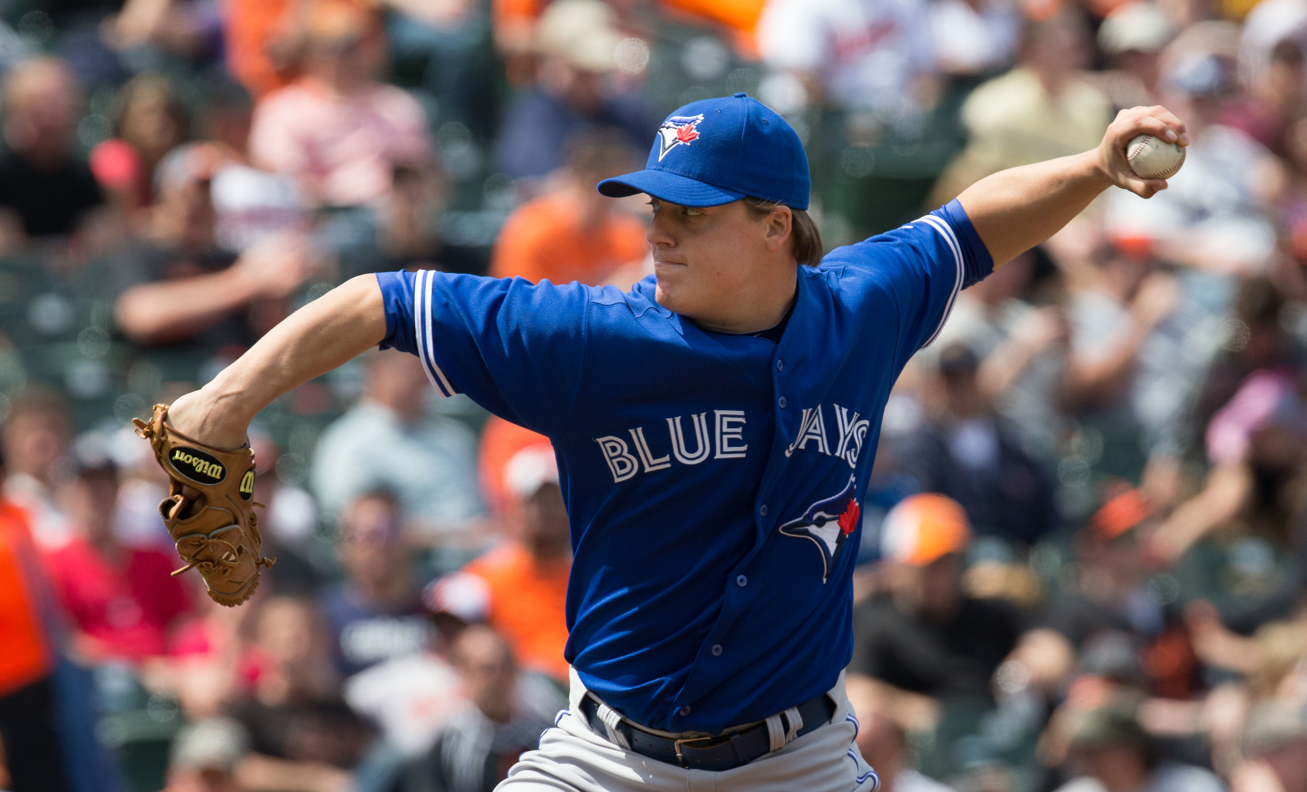 Toronto Blue Jays at Baltimore Orioles April 24, 2013